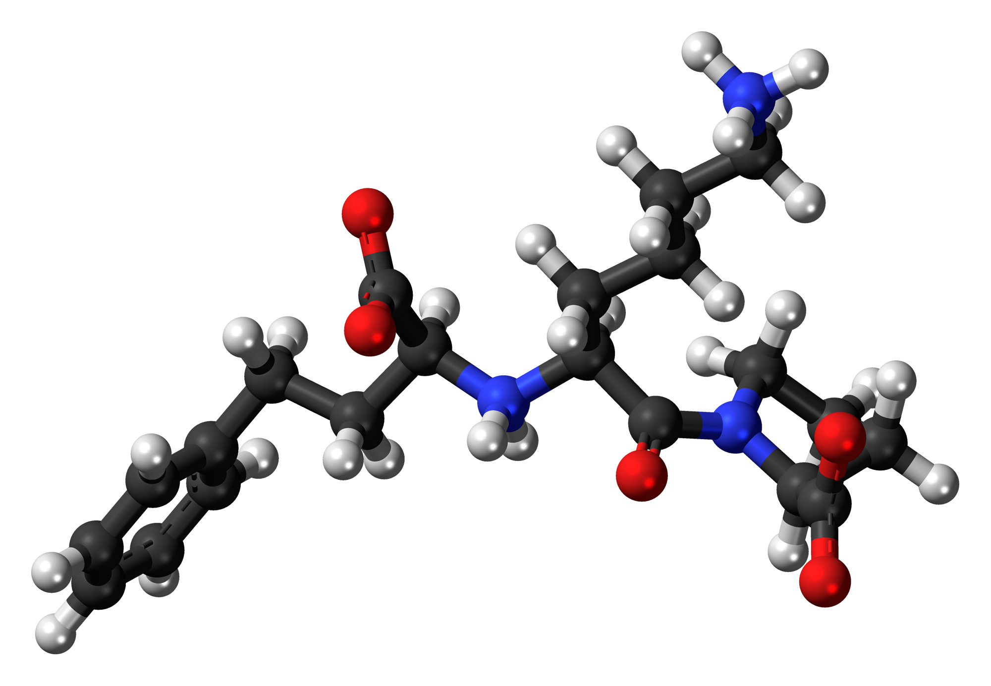 Ball-and-stick model of the lisinopril molecule, an ACE inhibitor. This image shows it as a zwitterion. Color code: Carbon, C: black Hydrogen, H: white Oxygen, O: red Nitrogen, N: blue